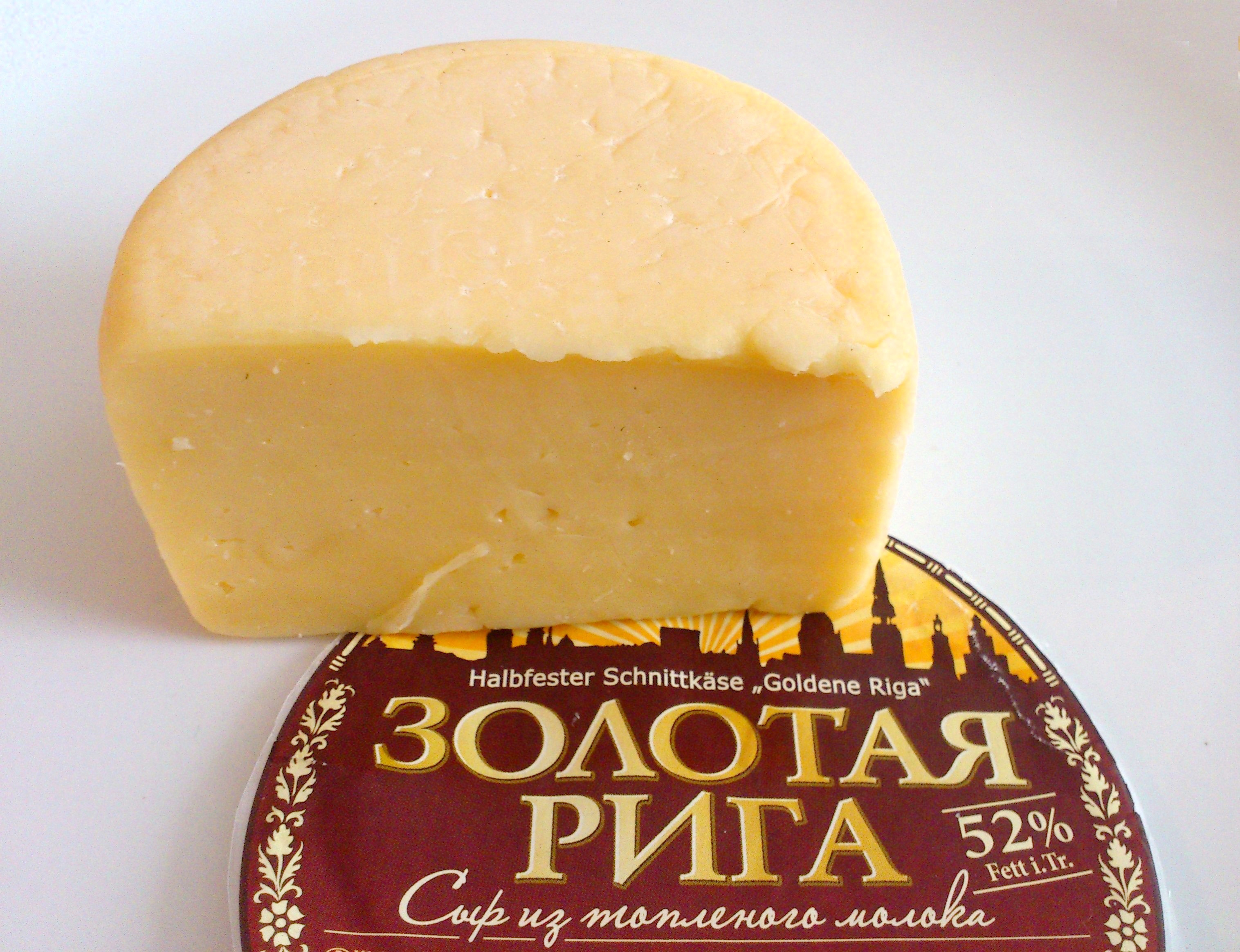 Cheese made from baked milk. Produced in Latvia. Purchased in Germany.